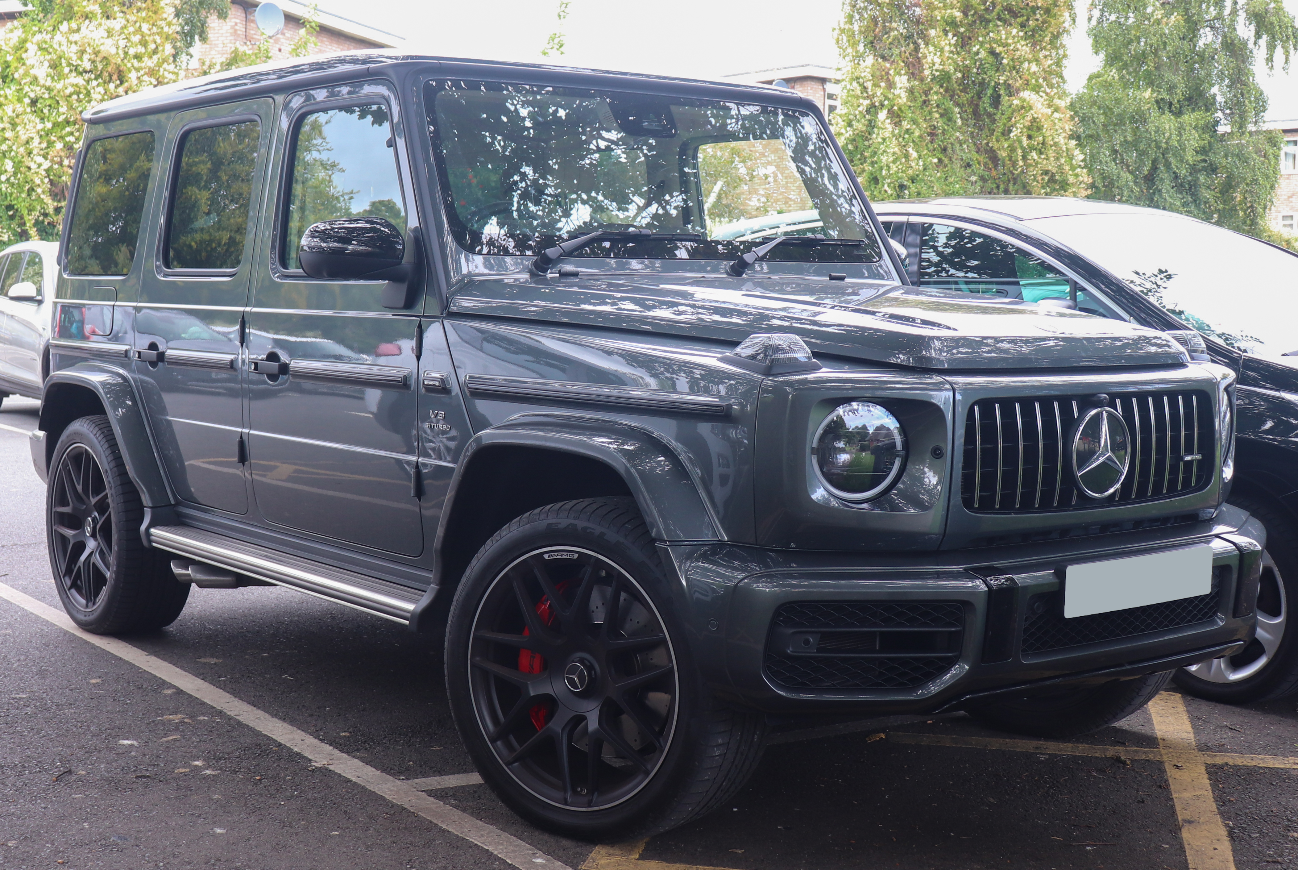 2018 Mercedes-AMG G 63 4MATIC Automatic 4.0 Front Taken in Warwick